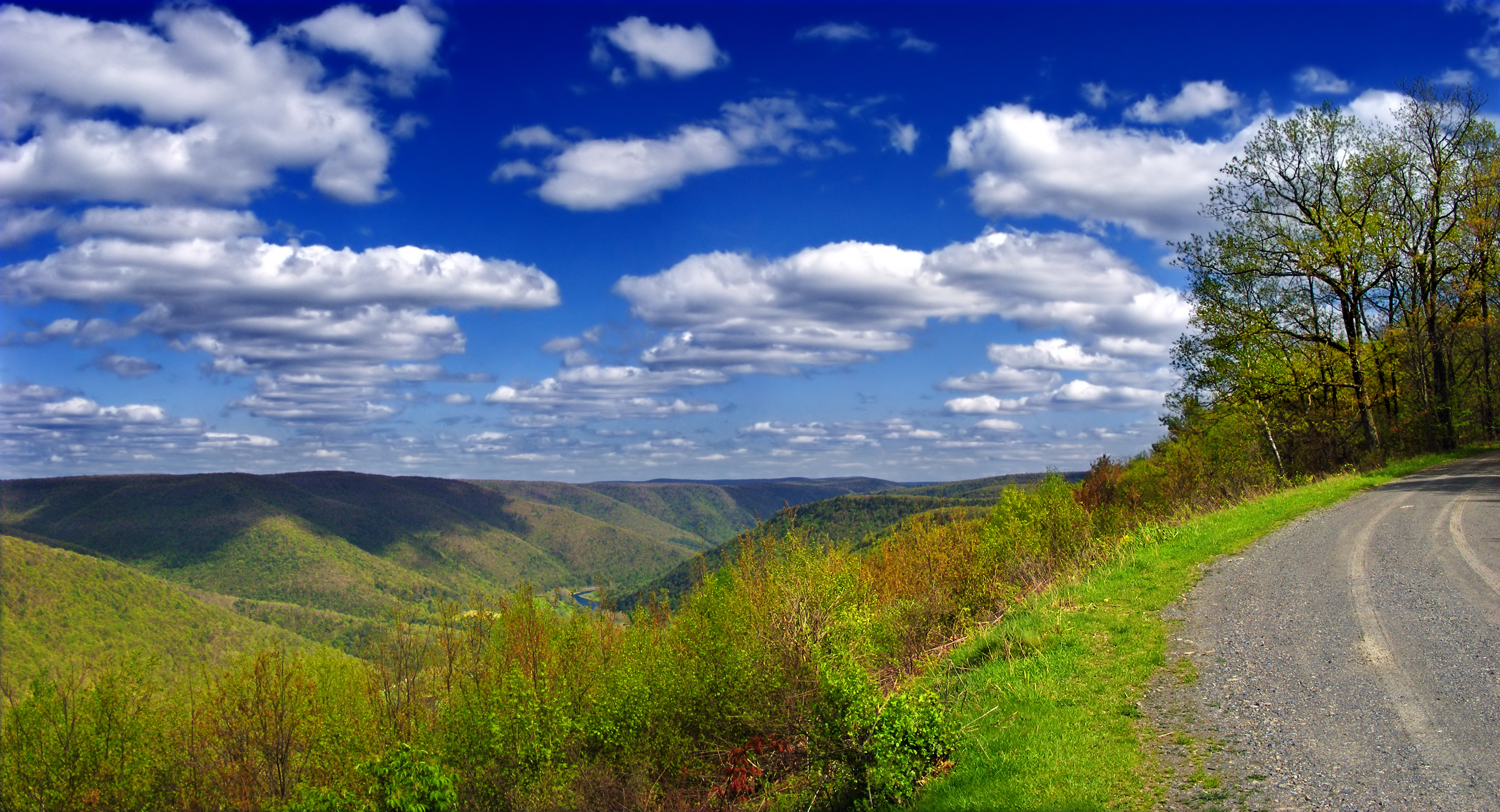 Lebo Vista in McHenry Township, overlooking the Pine Creek Gorage at Tiadaghton State Forest, Lycoming County.